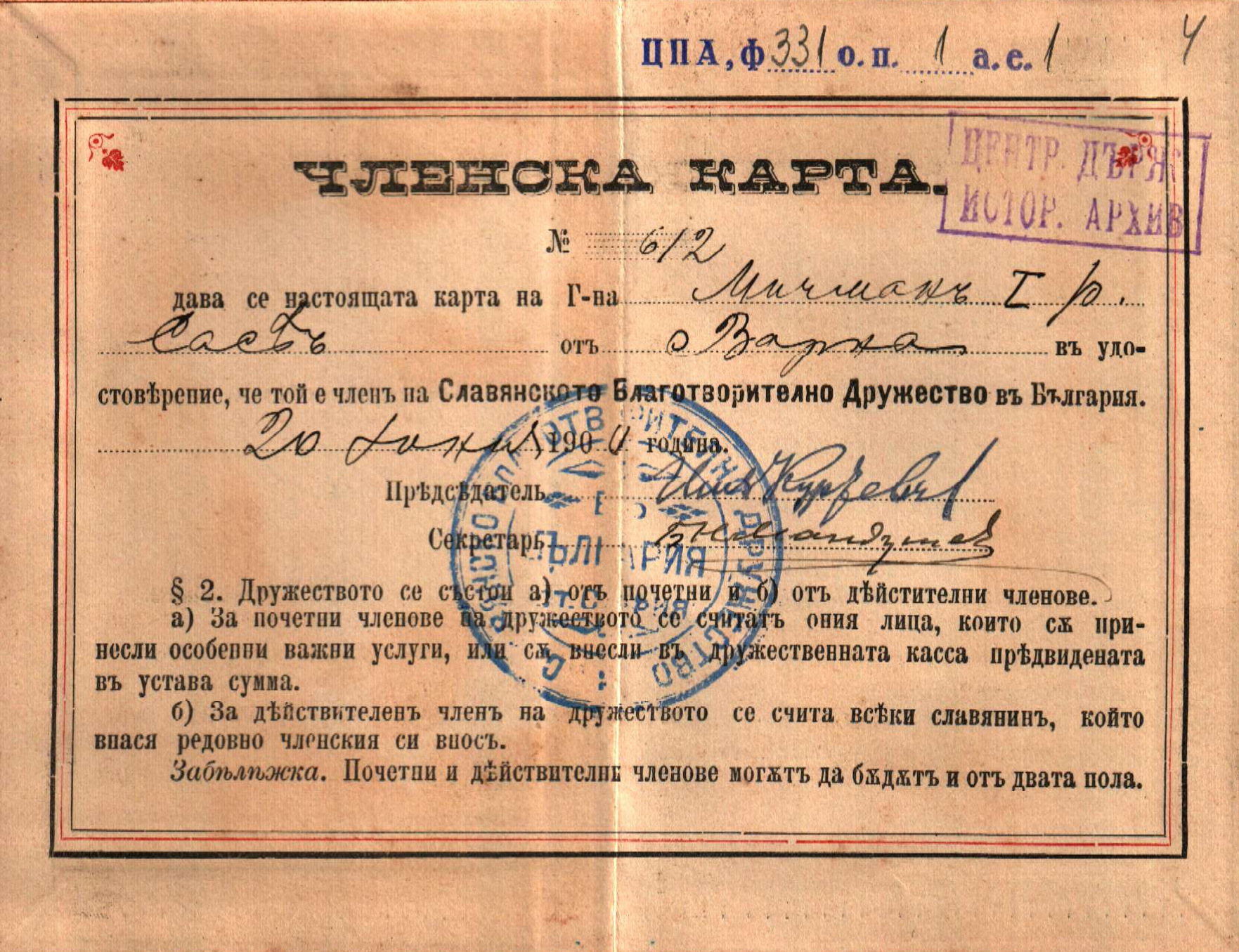 Todor Saev